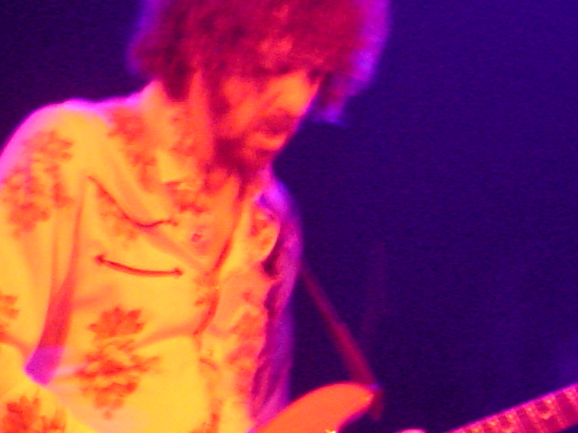 Guitarrist Audley Freed during a concert with New Earth Mud in Irving Plaza, New York City.